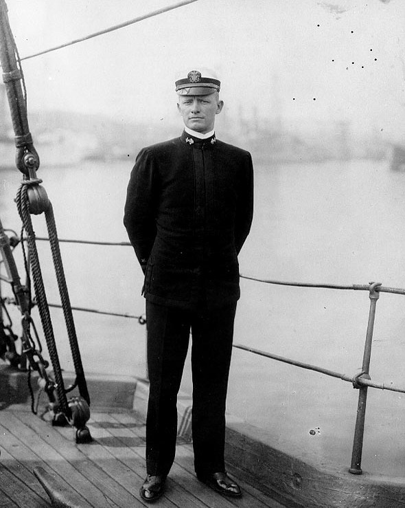 Ensign Chester Nimitz on a US Navy training ship.